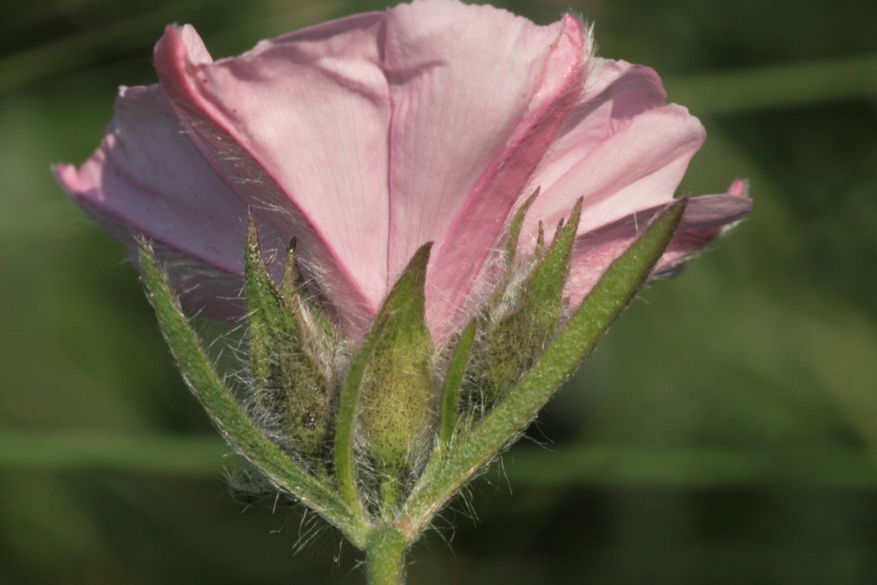 Convolvulus cantabrica